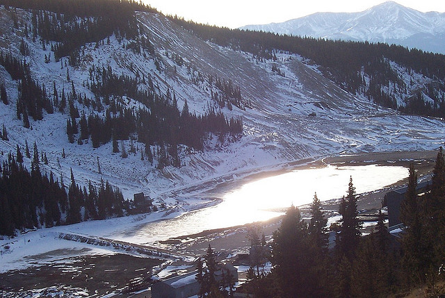 The tailings impound pond at the Black Cloud Mine, Iowa Gulch, Lake County, CO